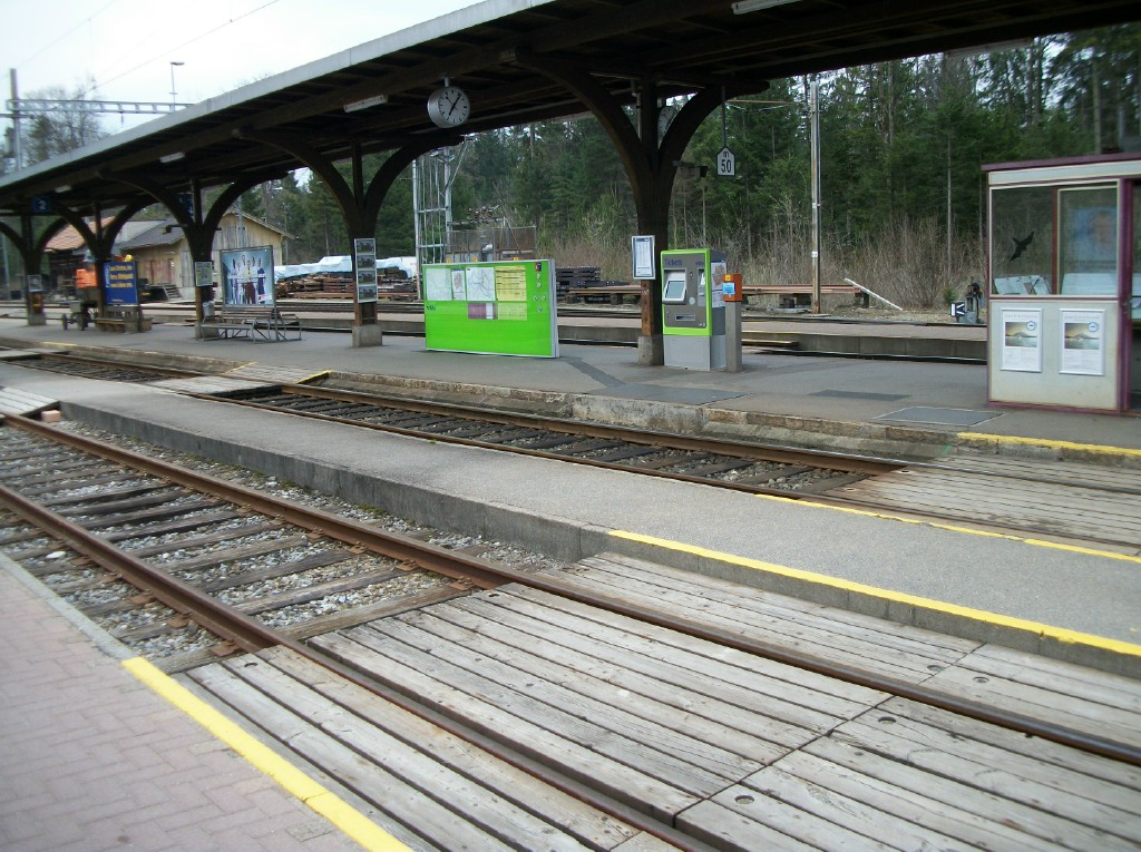 Low lying platform in the outskirts of Bern